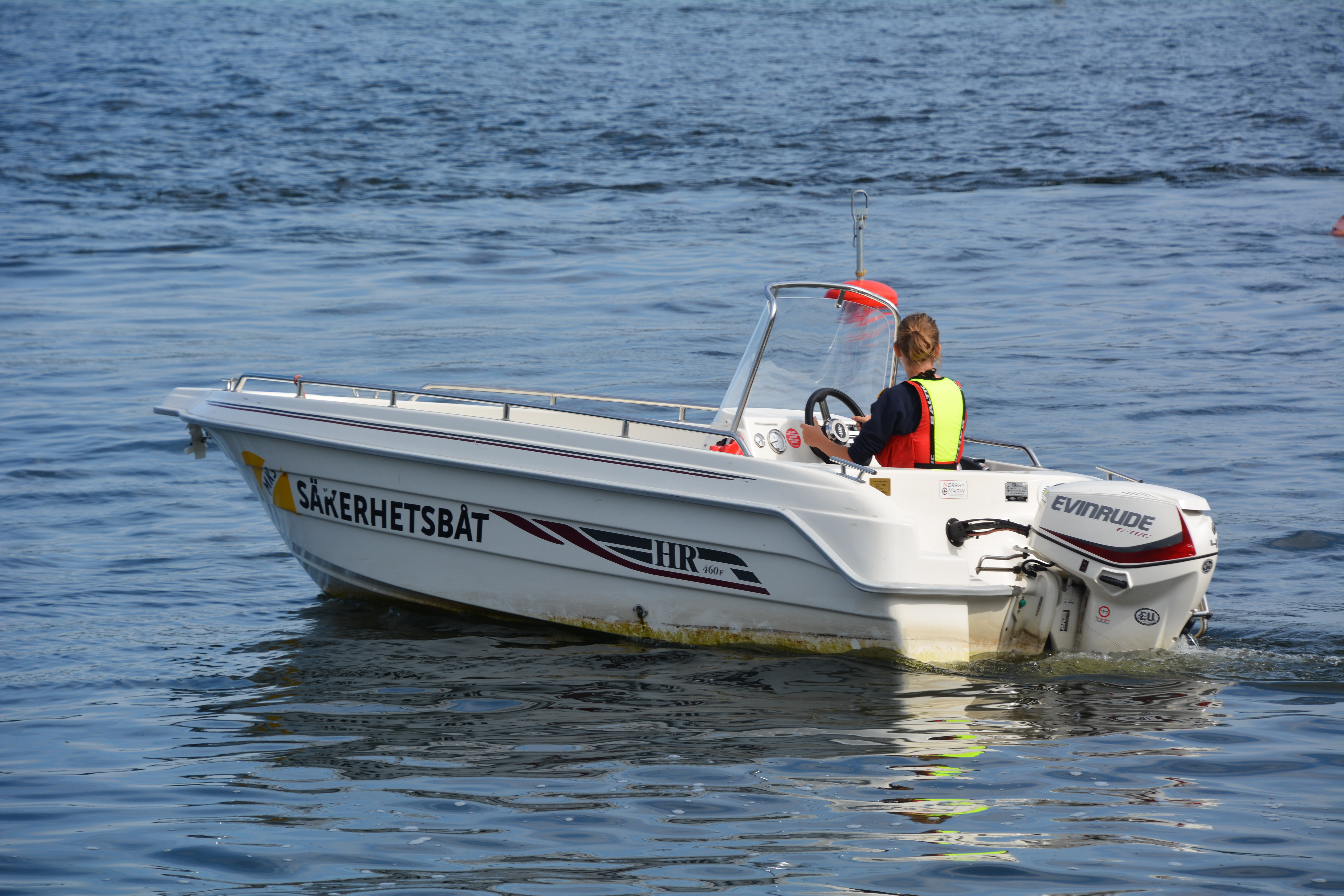 HR Boats 360. Security boat, MSK sailing school, Stockholm